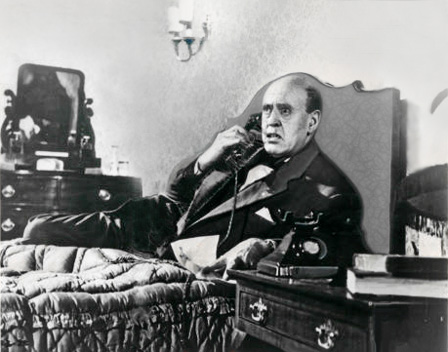 Film studio press photograph for premiere release of The Green Man, 1957